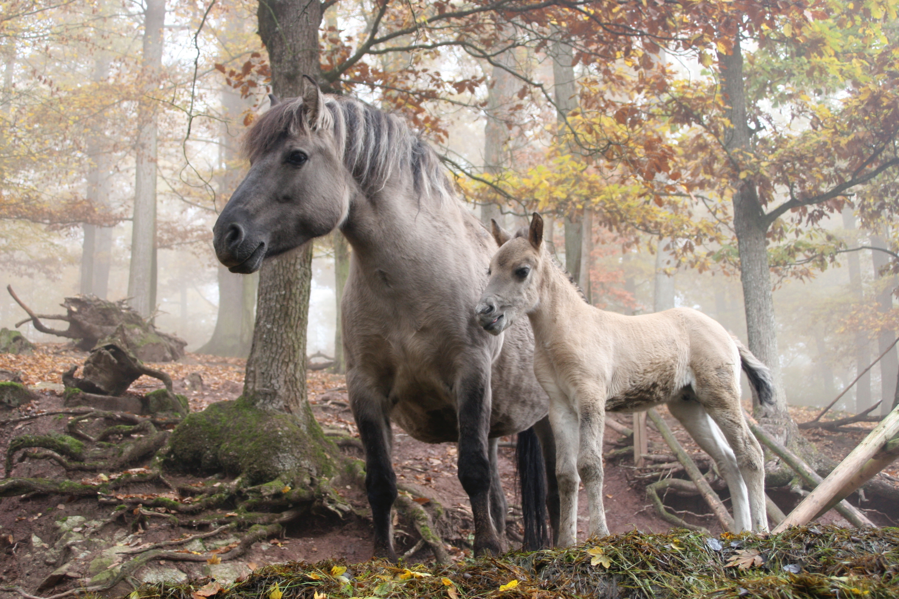 Horses in the wildlife park at Erlebnispark Tripsdrill